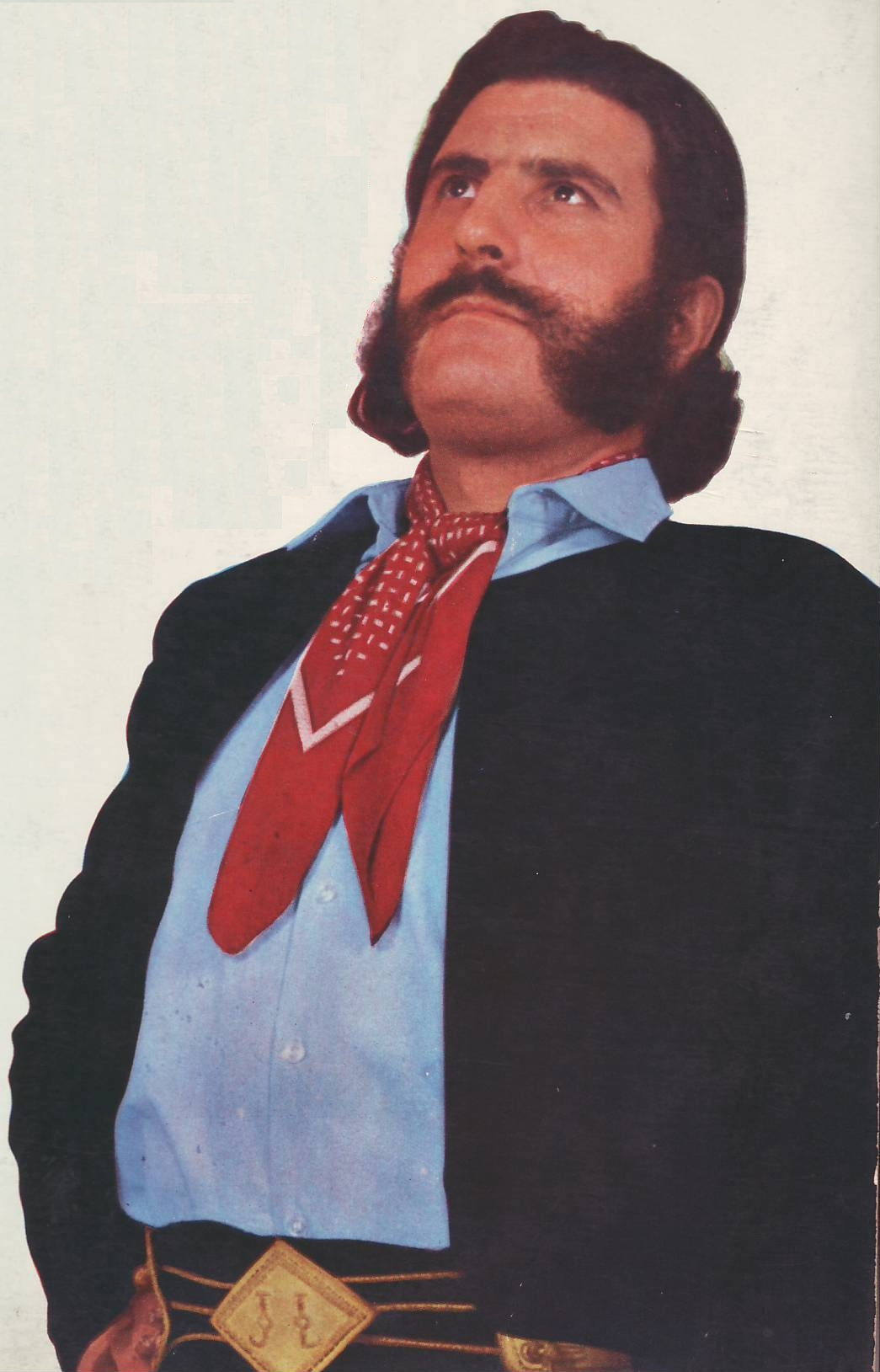 Portrait of José Larralde